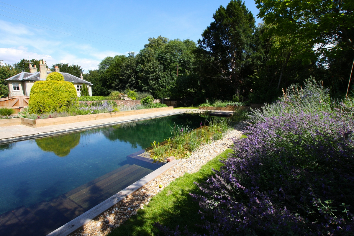 A Traditional Type 5 Natural Swimming Pool